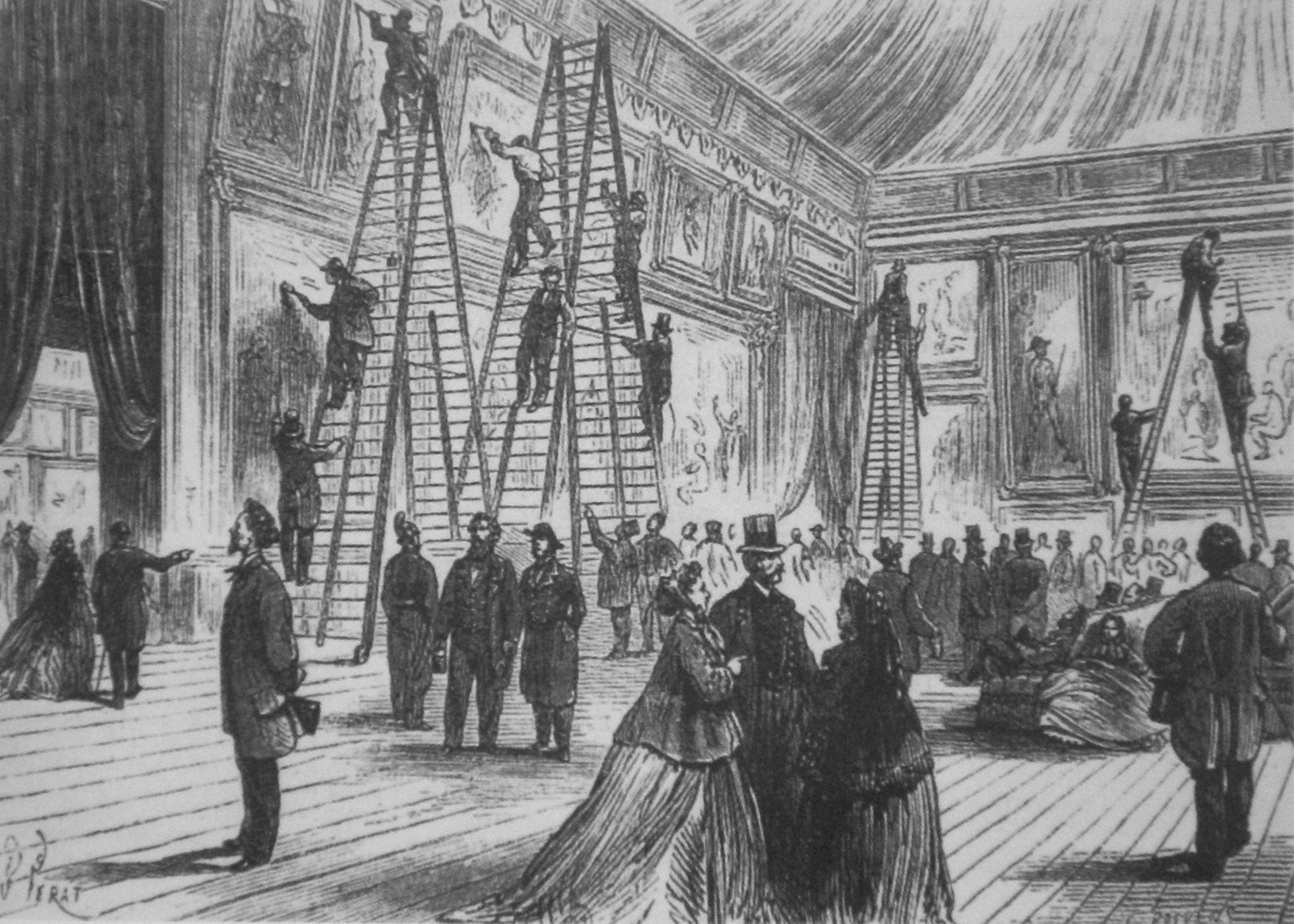 Showing a real 'vernissage' (note the workers in the background), Salon de Paris, 1866.